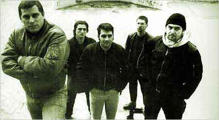 Direktori ispred dragstora